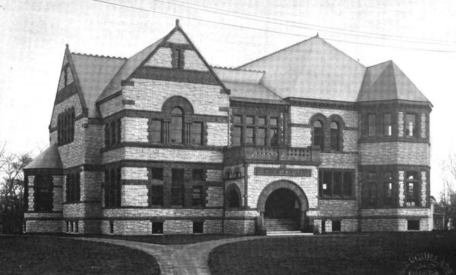 Forbes library, Northampton, Massachusetts.